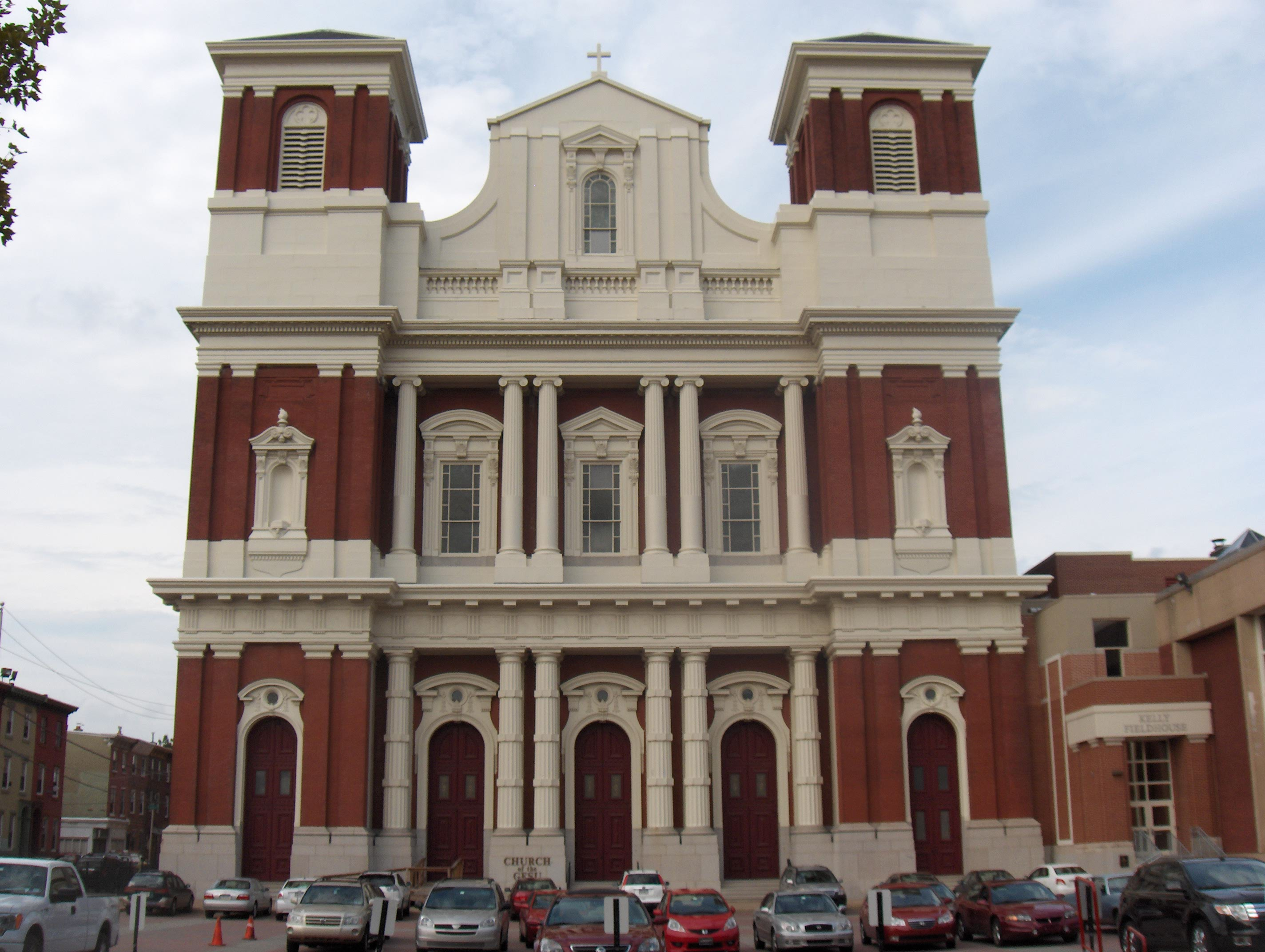 Church of the Gesu, North 18th and Thompson Streets, Philadelphia, PA 19130, built 1879-1880, towers after 1895, renovated 1952-1956. Now chapel for St. Joseph's Preparatory School, seen at far right